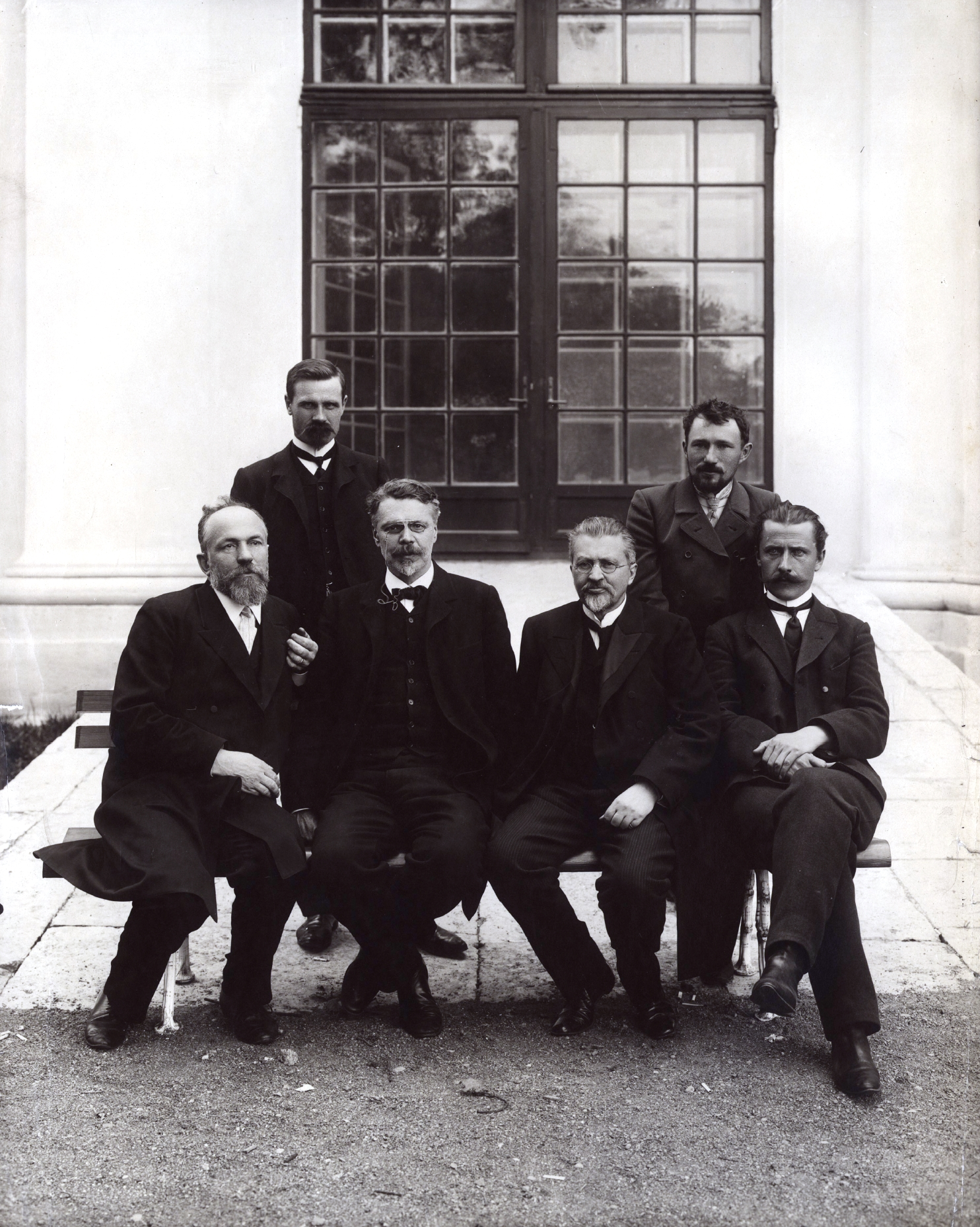 Members of the First Russian State Duma from Tver gubernia